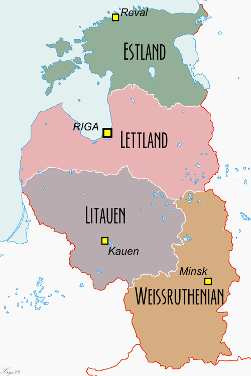 Infobox map of Reichskommissariat Ostland